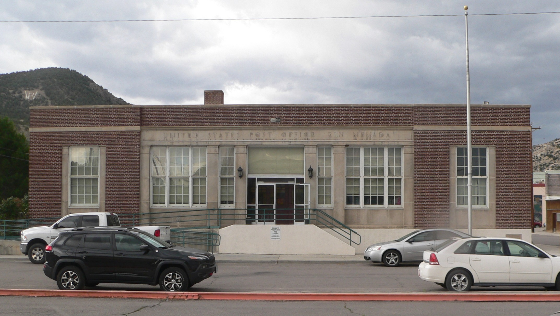 Former post office, now the Hotel Nevada's Postal Palace Convention Center, located at 415 5th Street in Ely, Nevada; seen from the east-northeast, across 5th.